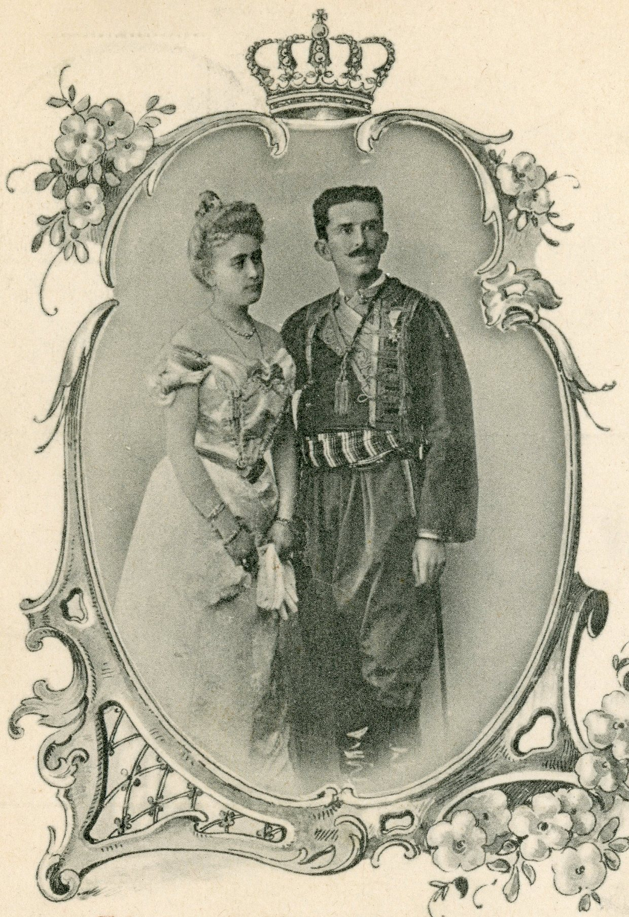 Duchess Jutta and Prince Danilo